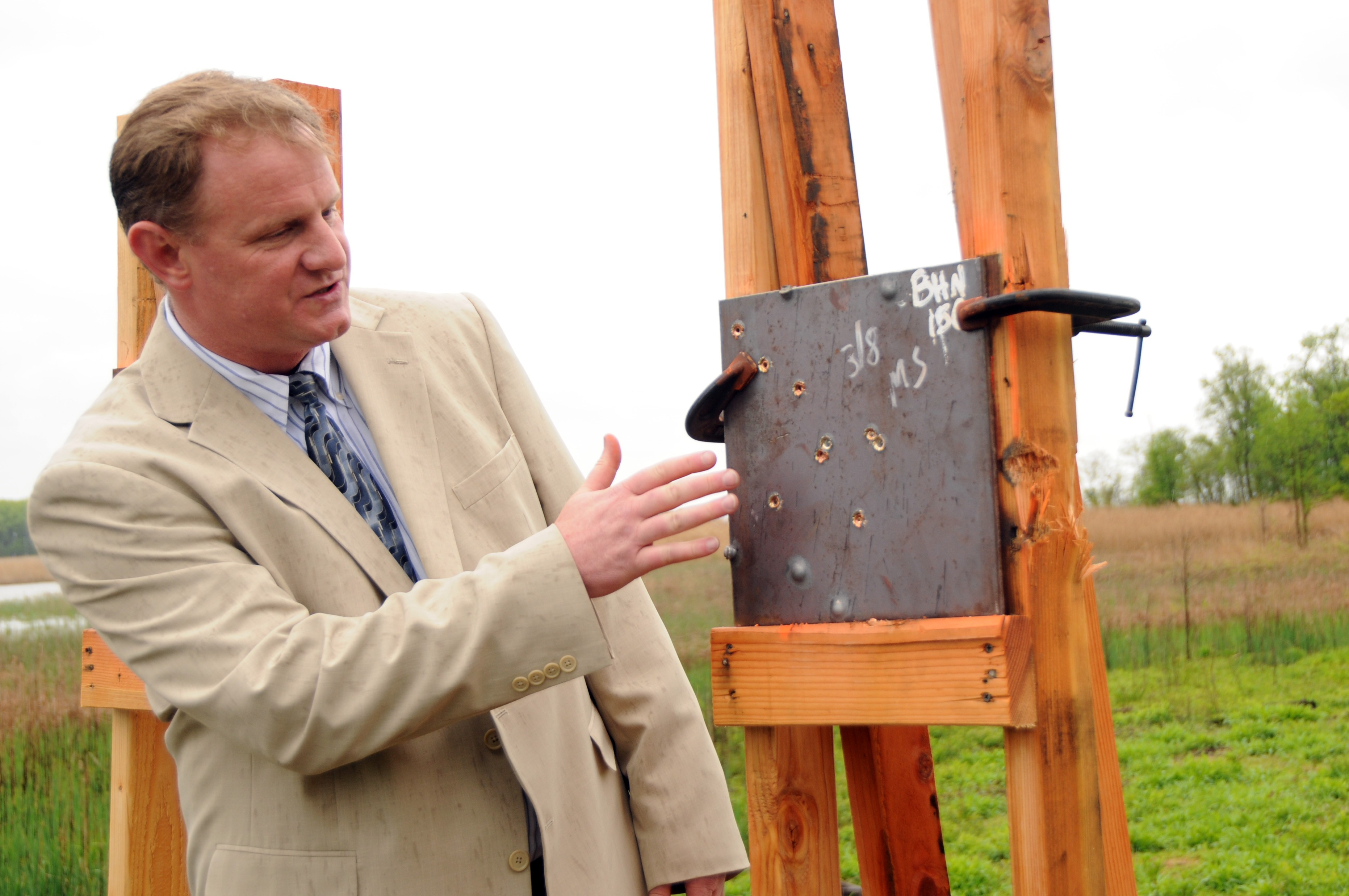 'Green bullet' as effective as M855 round -- consistently May 6, 2011 By C. Todd Lopez Photo Credit: C. Todd Lopez Jim Newill explains the effectiveness of the Army's 5.56mm M855A1 Enhanced Performance Round fired from an M4 Carbine against a 3/8 inch mild steel plate, and compares its performance against that of a 7.62mm M80 round fired from an M14, during a test fire event at Aberdeen Proving Ground, May 4, 2011. The M80 round, unlike the M855A1 round, was unable to penetrate the plate at 300 meters.